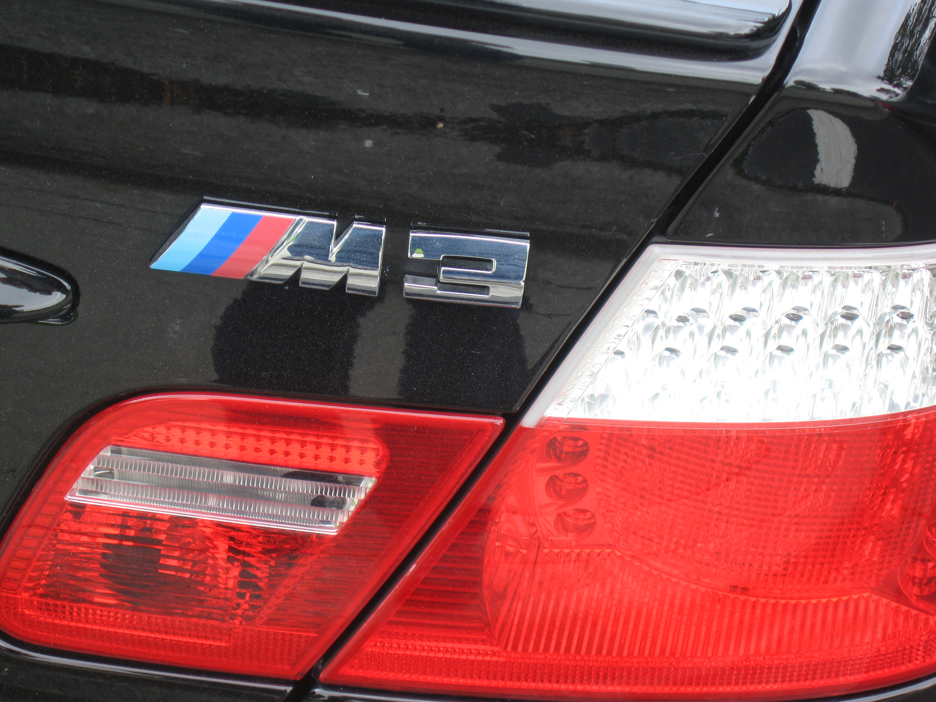 Black BMW M3 E46 writing - badge - logoIMG_5054